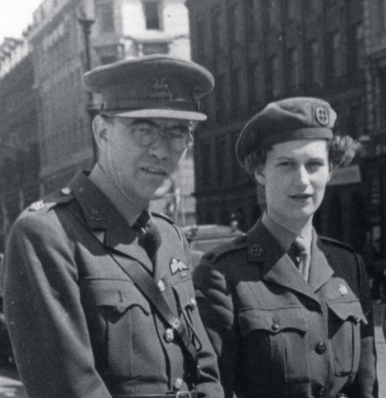 Photograph of the Danish resistance member Varinka Wichfeld Muus together with her husband Flemming Muus ca. 1945